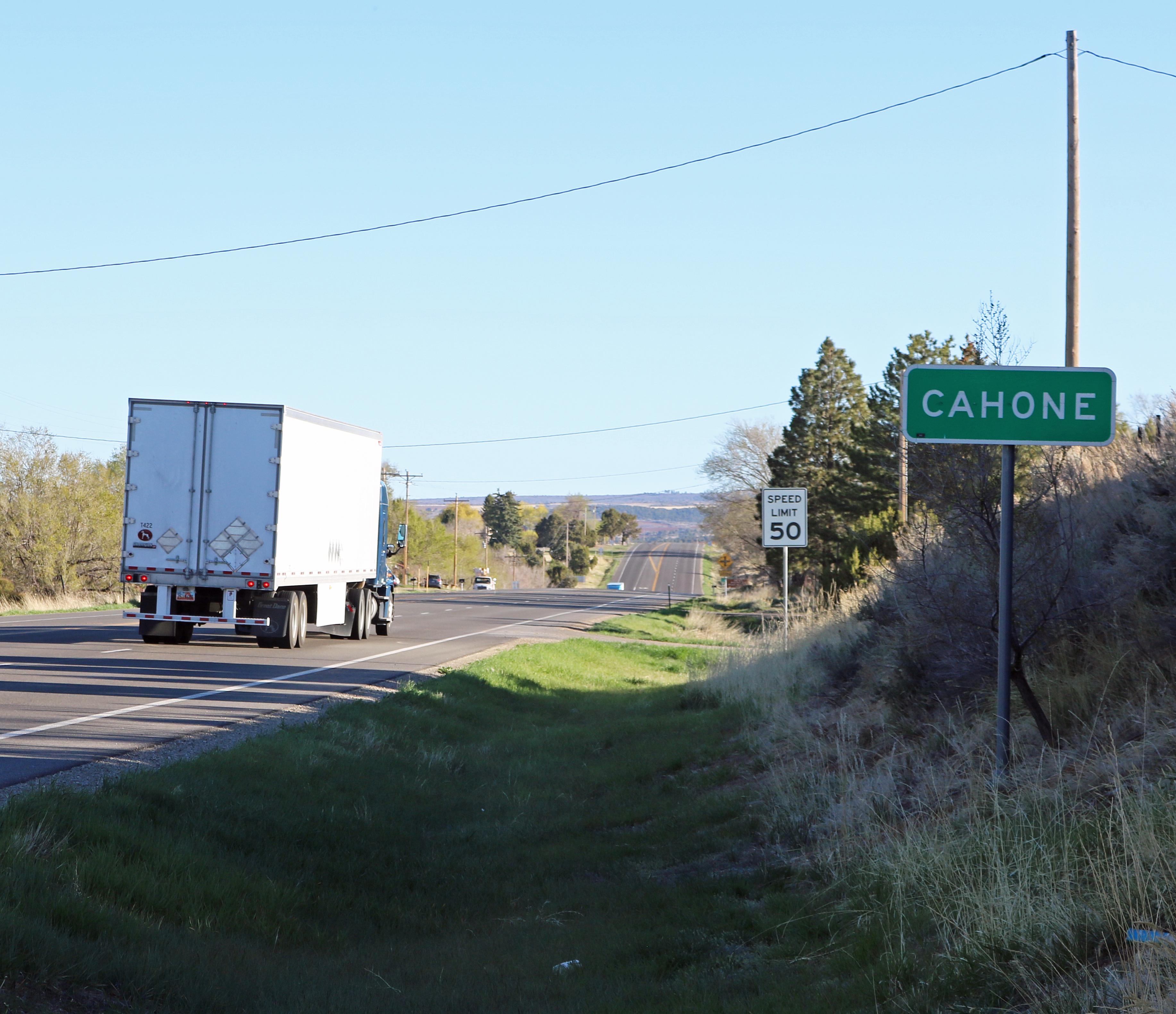 Cahone, Colorado, in Dolores County, looking north along U.S. Highway 491.